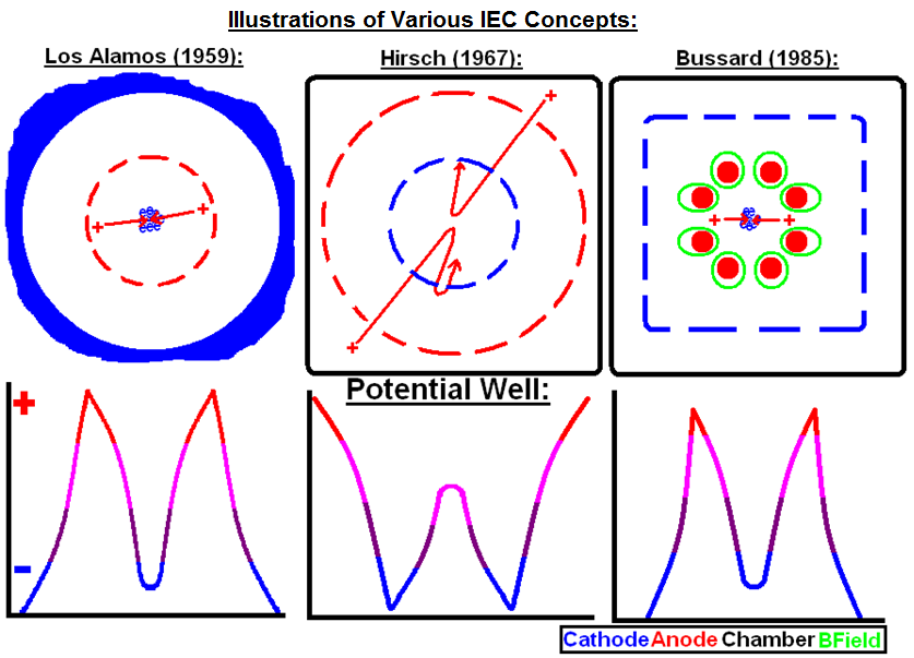 This a picture of different IEC concepts which have been purposed and/or tested. The first was from the paper "On inertial-electrostatic confinement of a plasma" from Physics of Fluids, in 1959. The idea is to generate an electron cloud using a positive wire cage. This, in turn, attracts ions, using an electric field to heat them to fusion conditions. The second concept is from the paper: "Inertial-electrostatic confinement of ionized fusion gases" from 1967 and the patents 3,258,402 and 3,386,883. In this configuration, the ions were injected into an electric field made by two wire cages (a fusor). The last configuration is of a polywell. It is from the thesis "Eletrostatic potential measurements and point cusp theories applied to a low beta polywell fusion device" 2013. In this case, the electric field is generated by a cloud of magnetically confined electrons. Other information This a picture of different IEC concepts which have been purposed and/or tested. The first was from the paper "On inertial-electrostatic confinement of a plasma" from Physics of Fluids, in 1959. The idea is to generate an electron cloud using a positive wire cage. This, in turn, attracts ions, using an electric field to heat them to fusion conditions. The second concept is from the paper: "Inertial-electrostatic confinement of ionized fusion gases" from 1967 and the patents 3,258,402 and 3,386,883. In this configuration, the ions were injected into an electric field made by two wire cages (a fusor). The last configuration is of a polywell. It is from the thesis "Eletrostatic potential measurements and point cusp theories applied to a low beta polywell fusion device" 2013. In this case, the electric field is generated by a cloud of magnetically confined electrons.